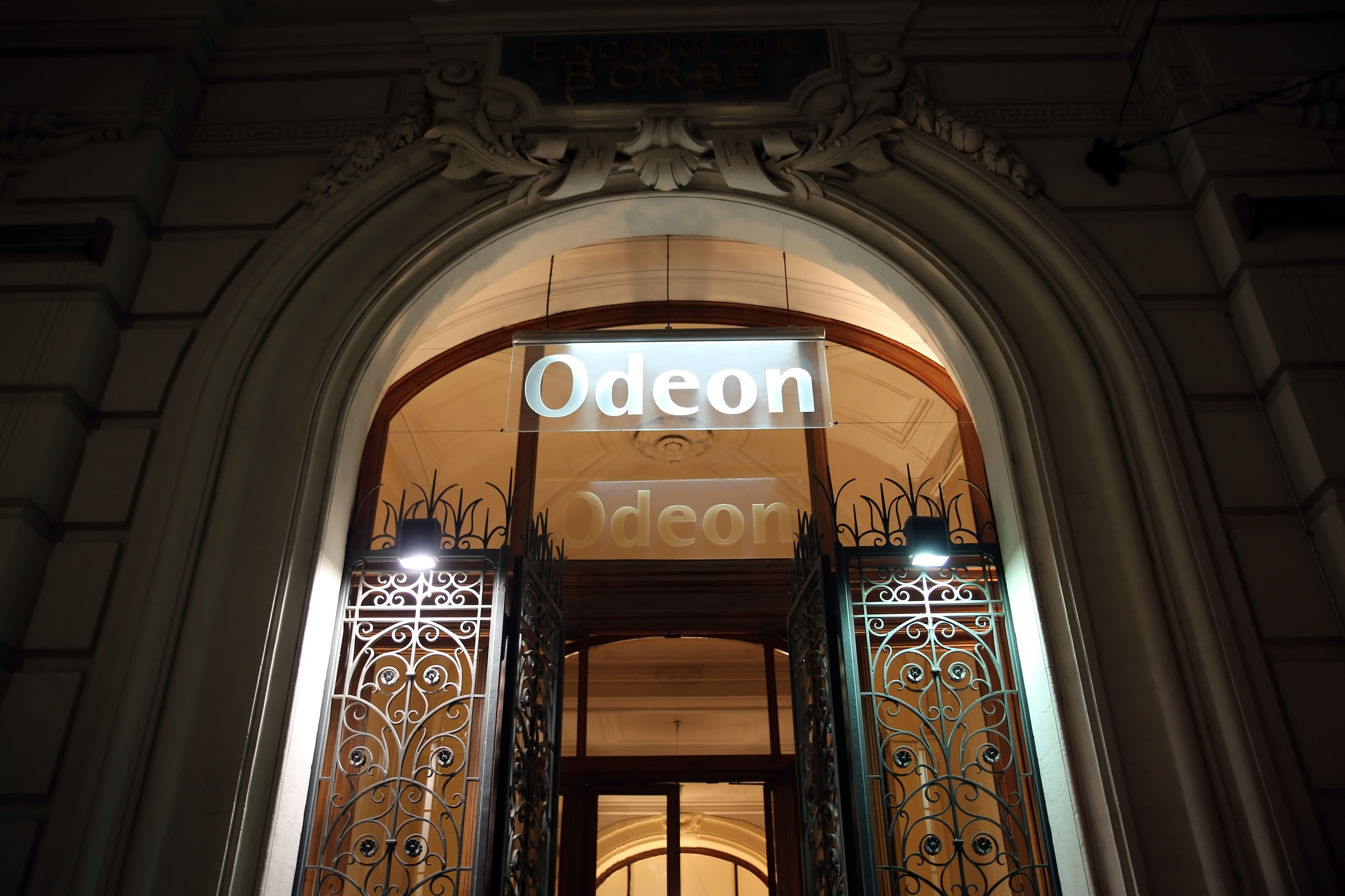 Odeon during Waves Vienna Music Festival & Conference 2012 in Vienna, Austria.